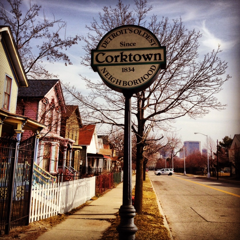 Corktown Detroit's Oldest Neighborhood 1834